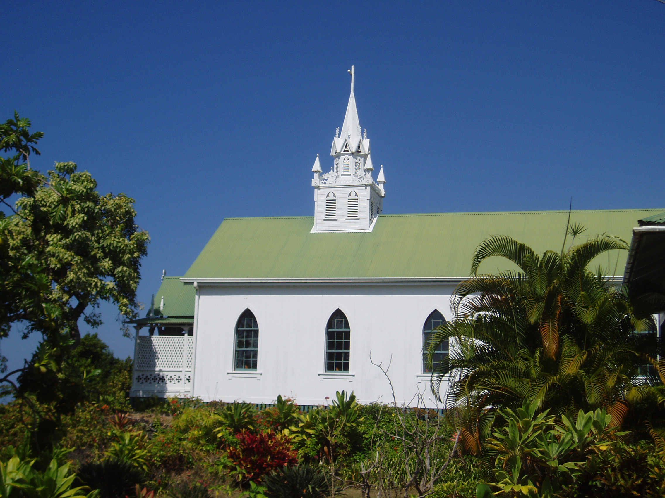 Exterior of Saint Benedict's Catholic Church is Honaunau, Hawaii